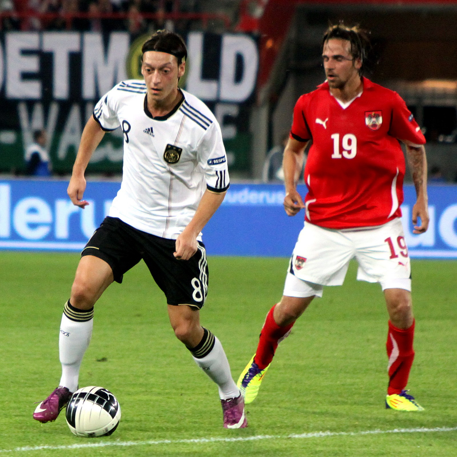 Qualifying for the UEFA Euro 2012 Austria (red shirt) vs. Germany (white Shirt) 1:2 (0:1) at 2011-06-03 in Vienna (Ernst-Happel-Stadion) — The photo shows (fron left to right): Mesut Özil (Real Madrid), Martin Harnik (VfB Stuttgart).